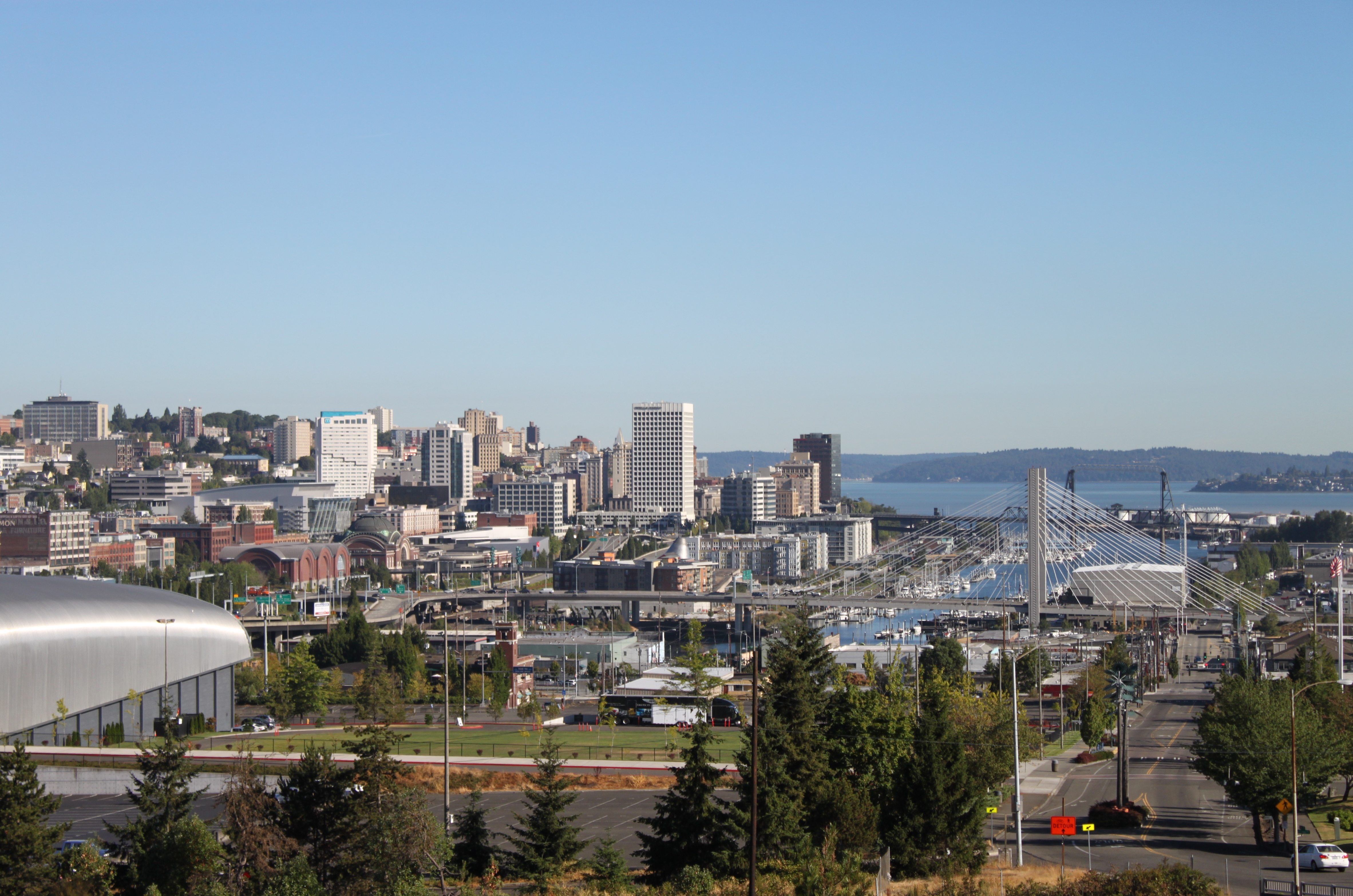 Tacoma skyline from McKinley Way